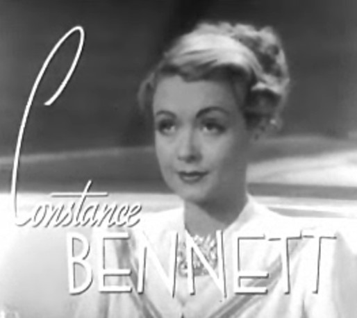 Cropped screenshot of Constance Bennett from the trailer for the film Topper Takes a Trip